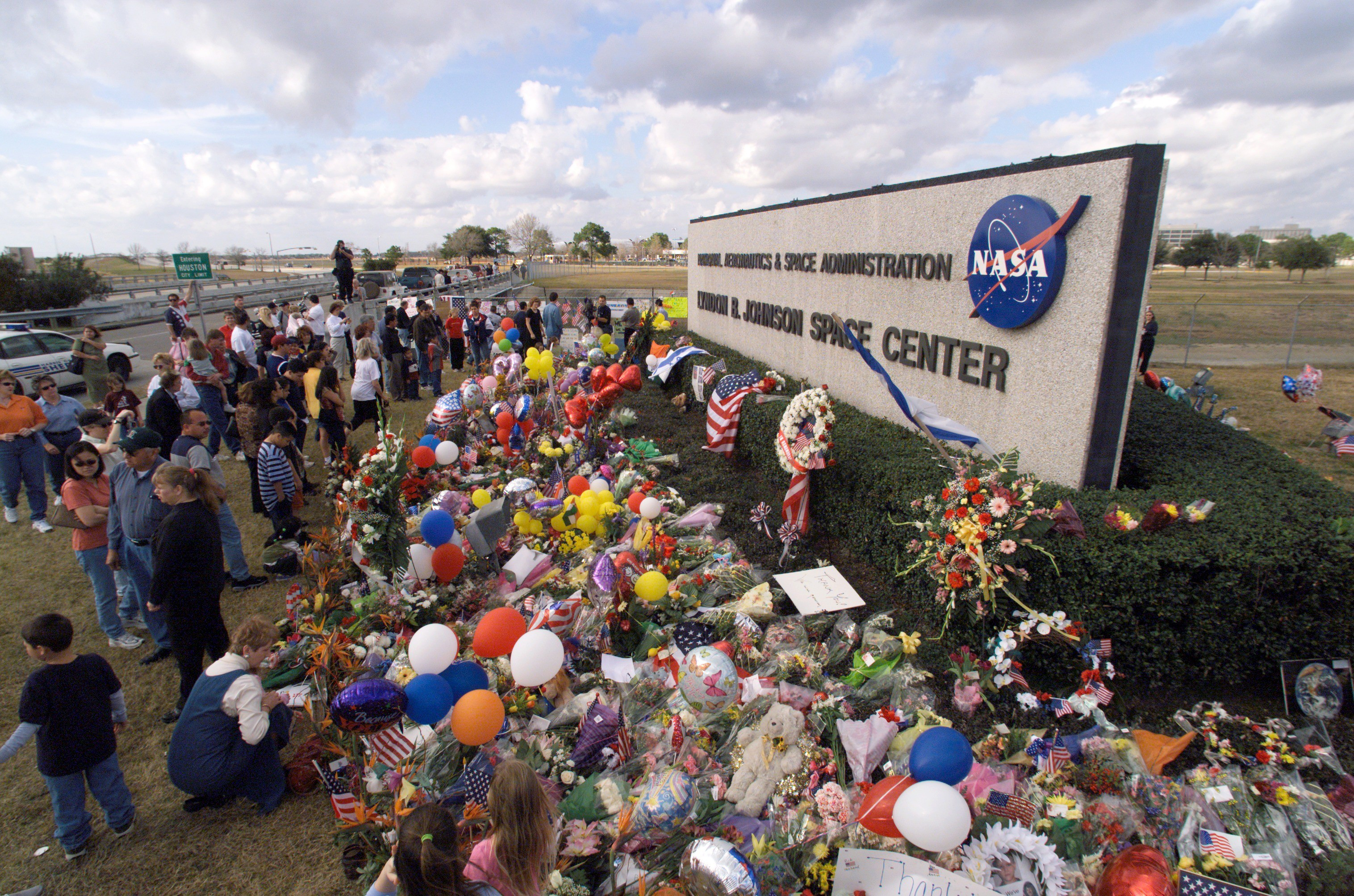 In memory of the Space Shuttle Columbia crewmembers who lost their lives on February 1, 2003, a massive collection of flowers, balloons, flags, signs, and other arrangements were placed at the Johnson Space Center sign at the Center's main entrance.